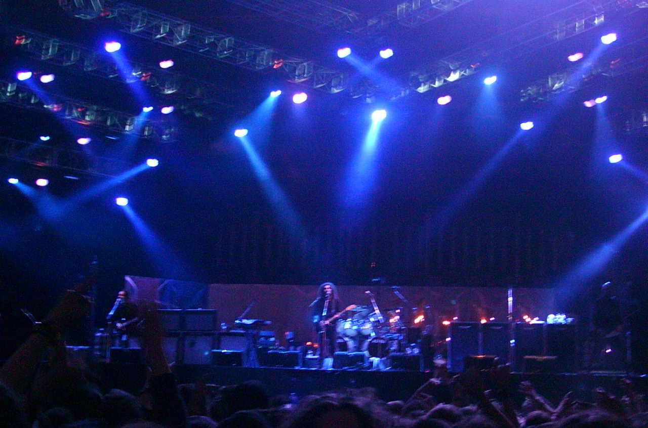 System of a Down at the Download Festival, England, 2005